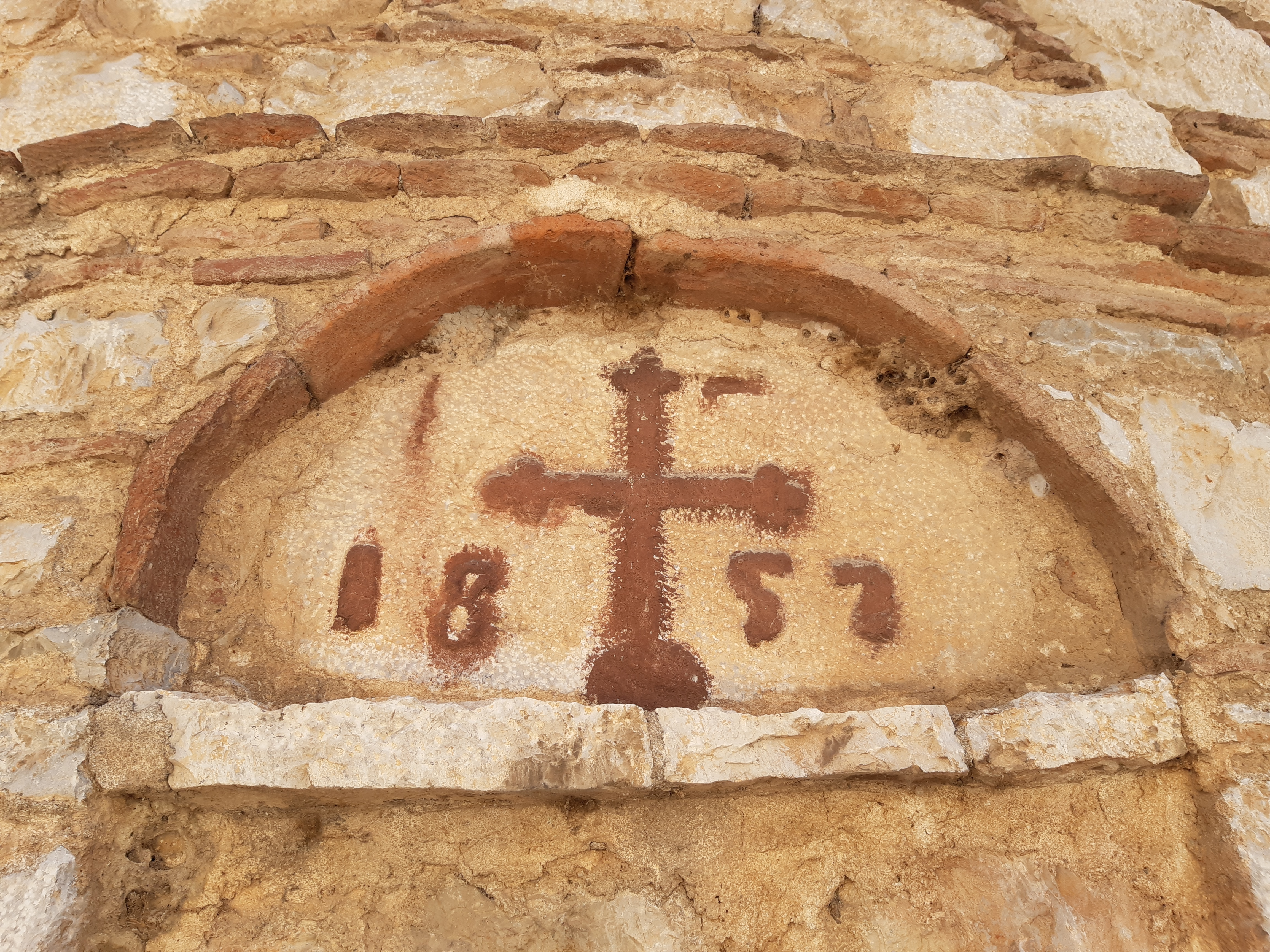 Saint Pantaleon Church in Kastoria in August 2020